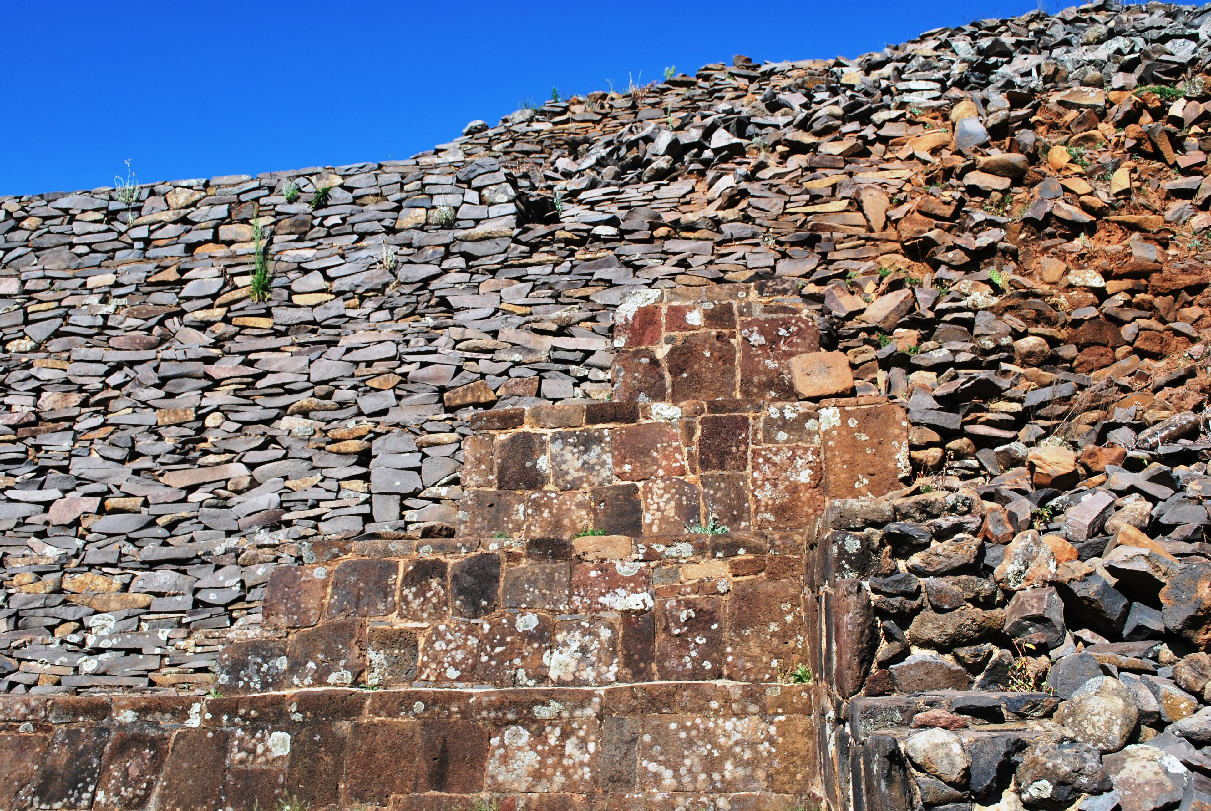 Yacata pyramid showing some of the facing. The pyramids were built of basalt slabs covered in red volcanic rock. At Tzintzuntzan